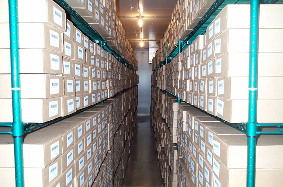 Interior of one of the 15 walk-in freezers in the DoDSR, showing one of five aisles in each freezer housing cardboard boxes containing serum specimens